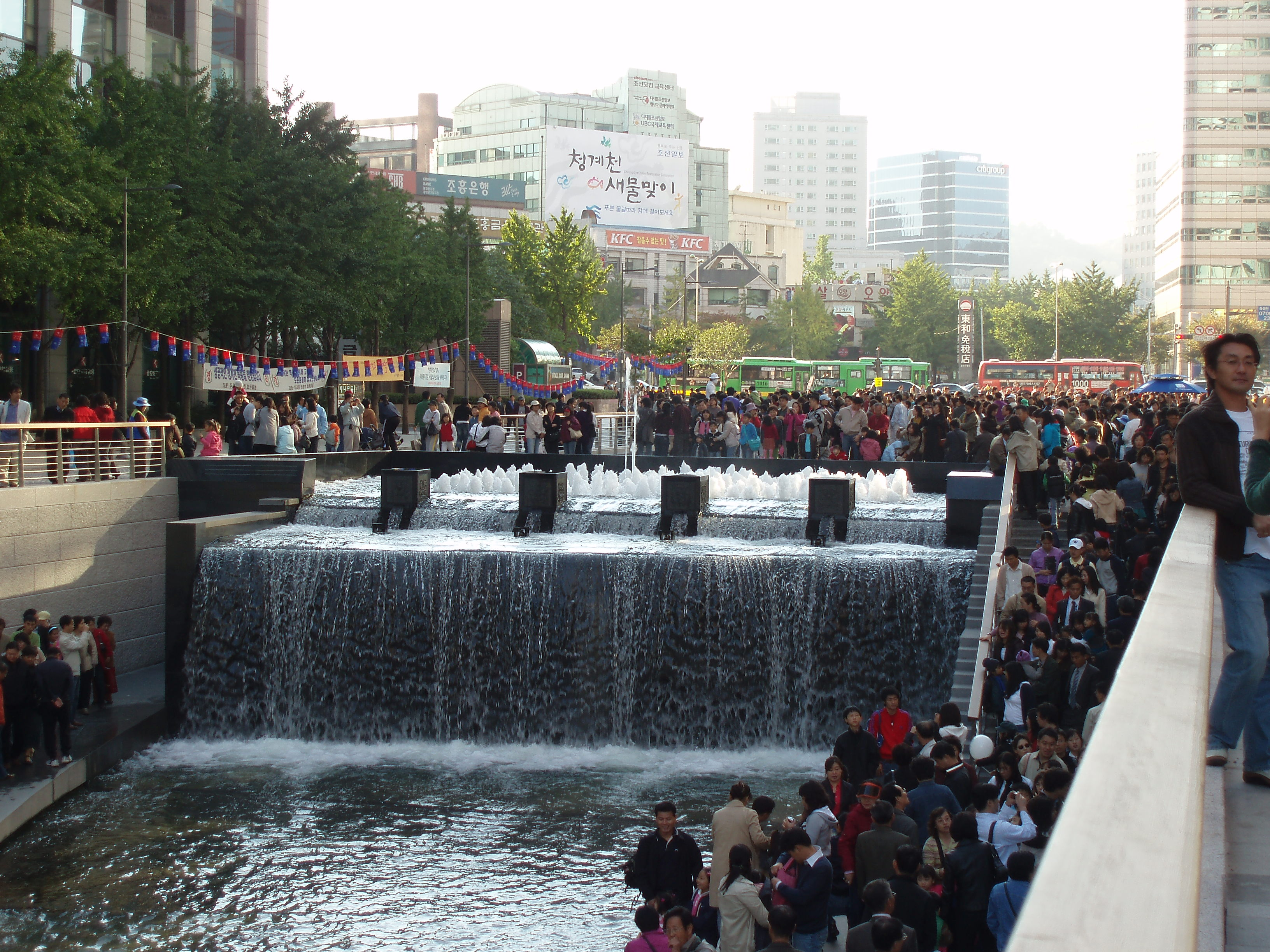 Cheonggyecheon, Seoul, South Korea